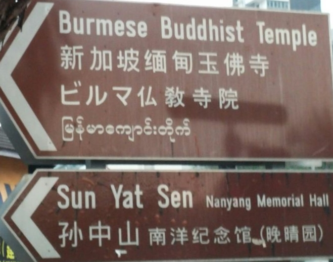 These signs show the Burmese Temple using Burmese on the road signs, and the Sun Yat Sen Memorial Hall using only Mandarin Chinese and English on the signs.